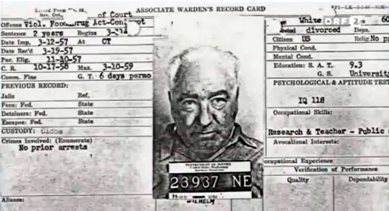 Associate Warden's Record Card for Wilhelm Reich, Lewisburg Federal Penitentiary, March 1957